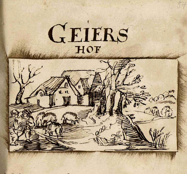 "Geiershof" (today: fr: Geyershof, lb: Geieschhaff; municipality of Bech, Luxembourg) by Jean Bertels, ~1597